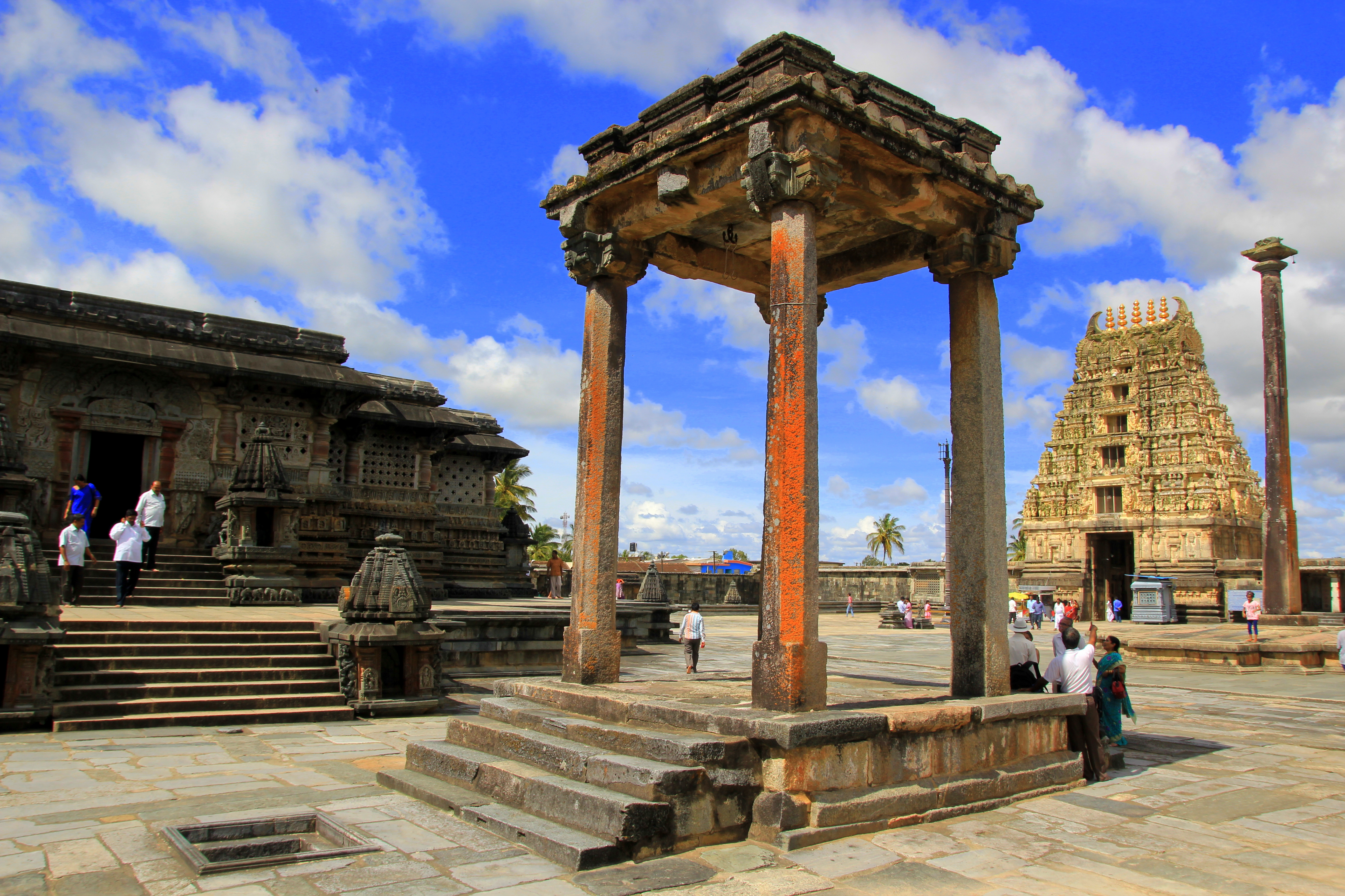 The panoramic view of the Belur Chennakesava temple complex